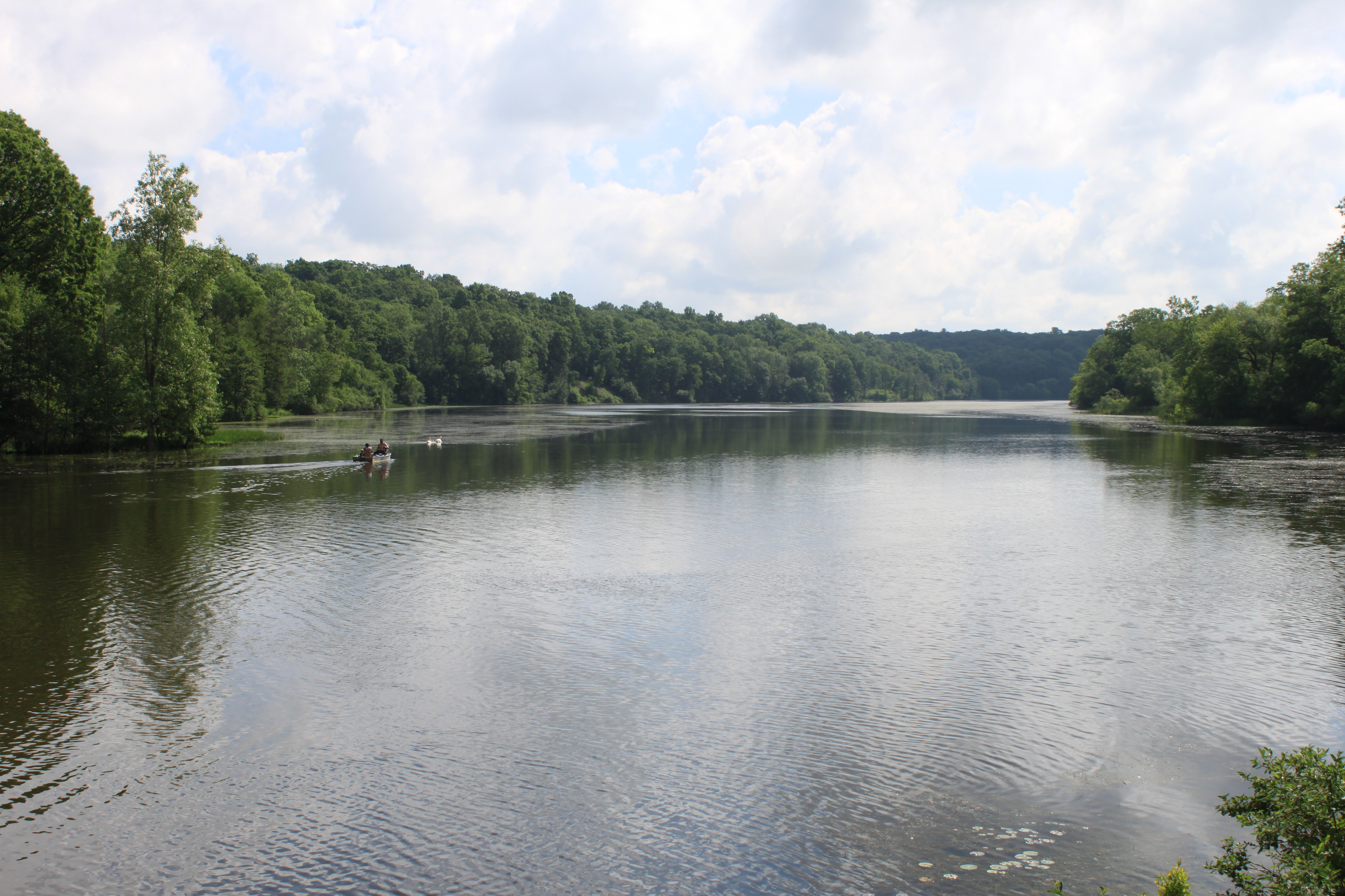 Barton Pond, Barton Hills, Michigan